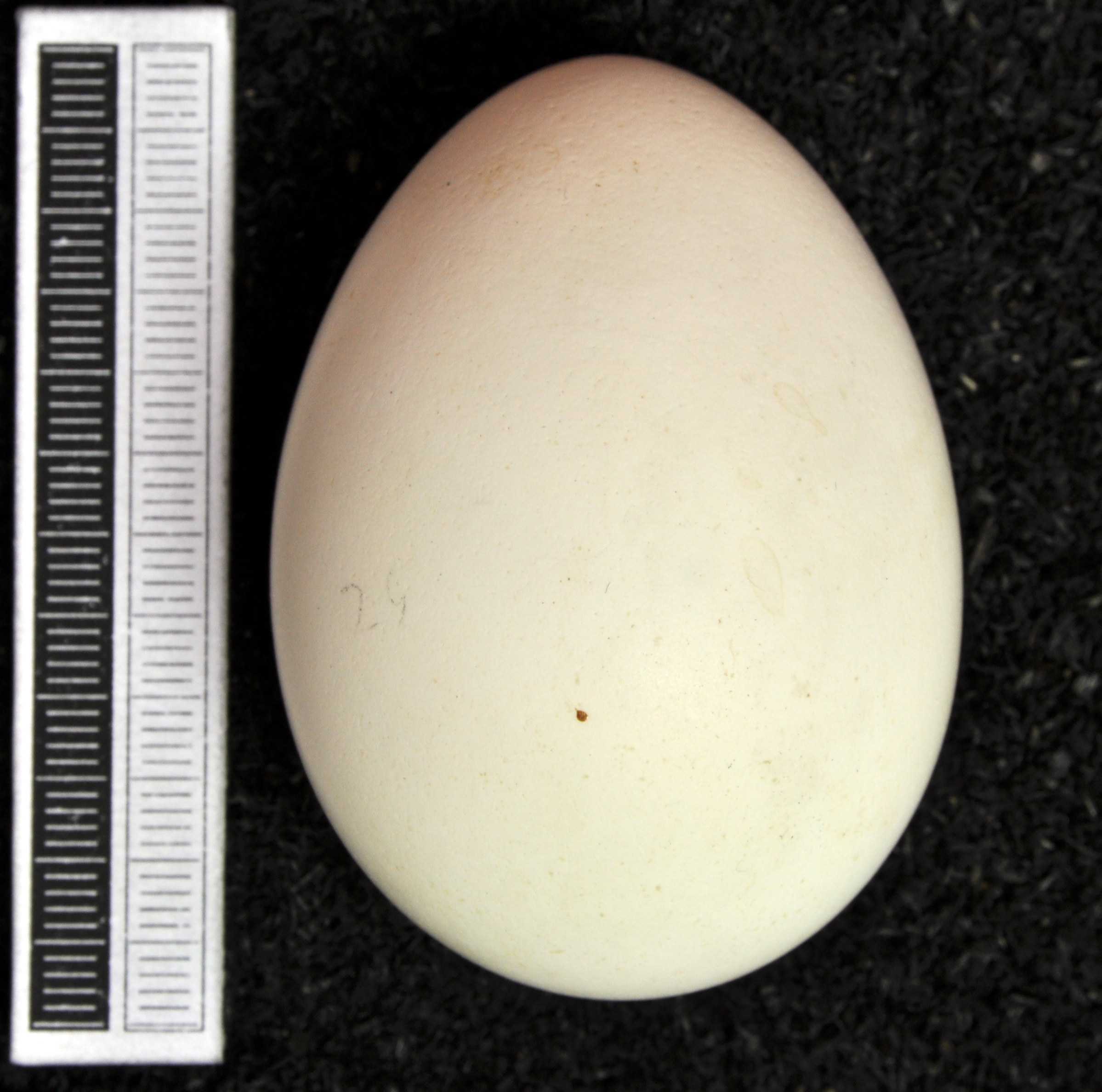 Manx shearwater Puffinus puffinus , egg, Coll. Museum Wiesbaden